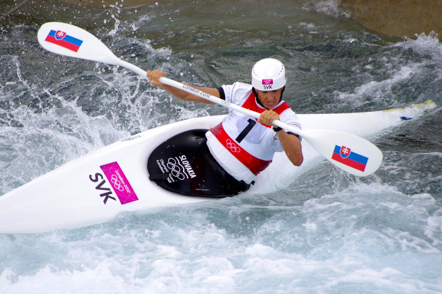 Canoeing at the 2012 Summer Olympics – Women's slalom K-1 Jana Dukátová (SVK)